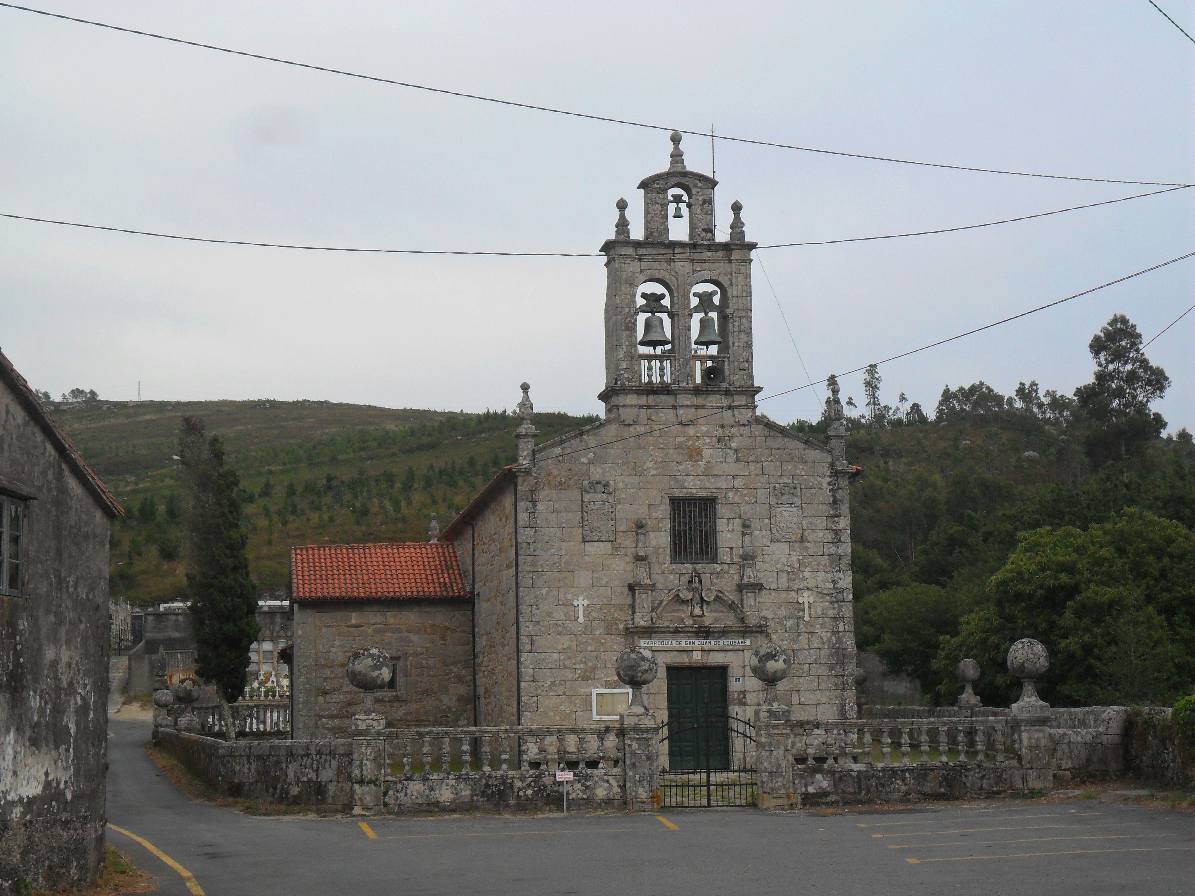 iglesia de seoane